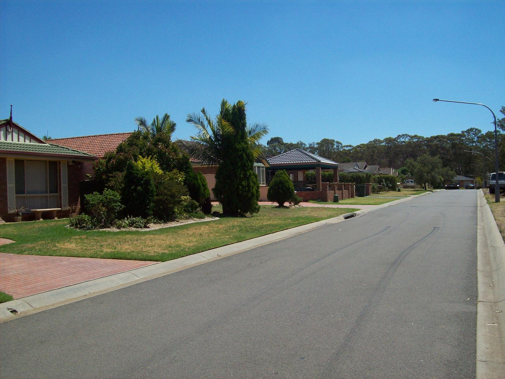 Residential streetscape in Plumpton, New South Wales